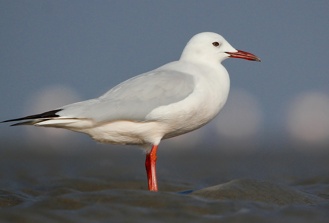 at Kutch